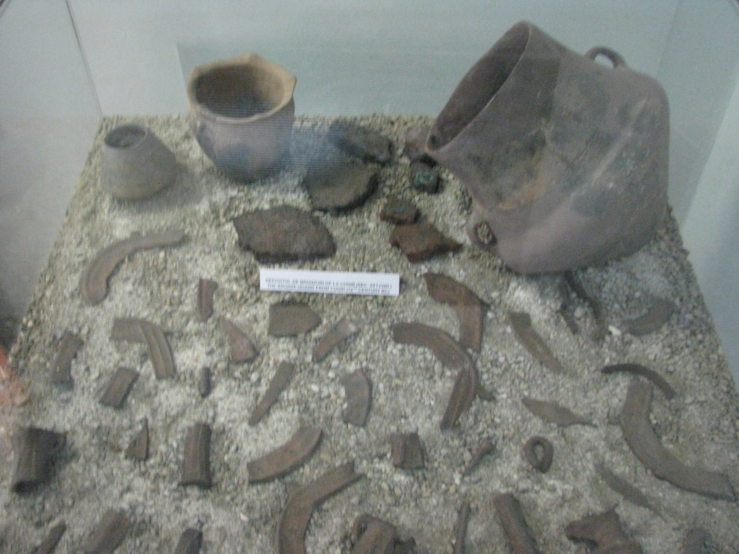 Alba Iulia National Museum of the Union 2011 - The Bronze Hoard from Cugir, 12th Century BC